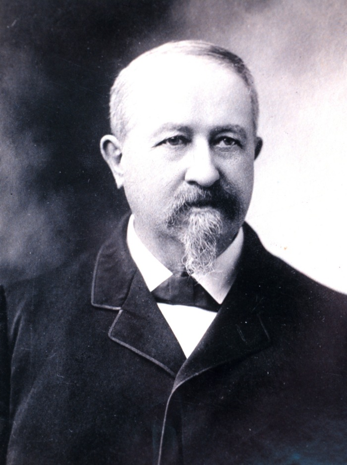 NOAA caption: Clarence Edward Dutton, famous geologist of the late Nineteenth Century. An originator of the "Theory of Isostasy," an early seismologist, and the first to head the USGS division of volcanic geology. (1841-1912.)